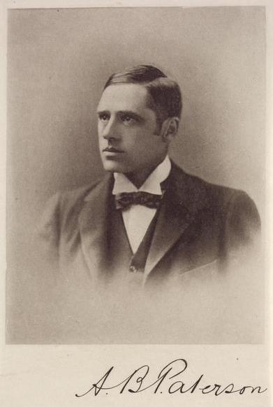 Australian poet Banjo Paterson. The author of "Waltzing Matilda".